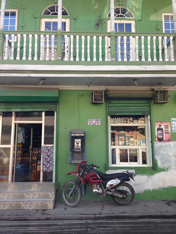 A street scene in Cap Haitien, Haiti